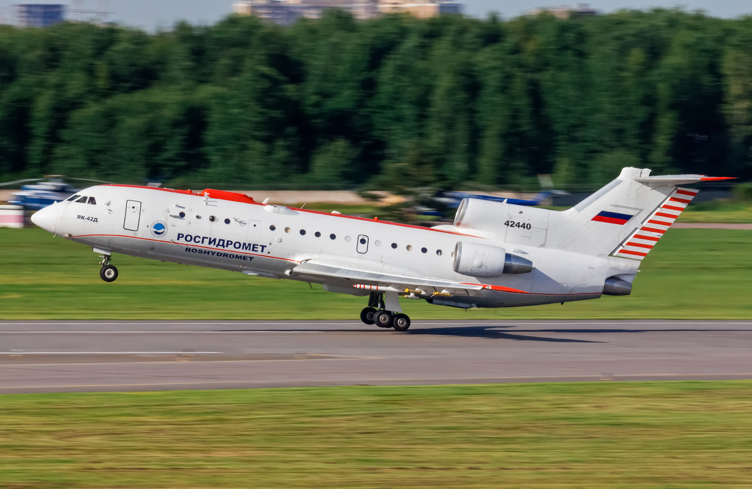 SibNIA Yakovlev Yak-42 (RA-42440) operated for Roshydromet